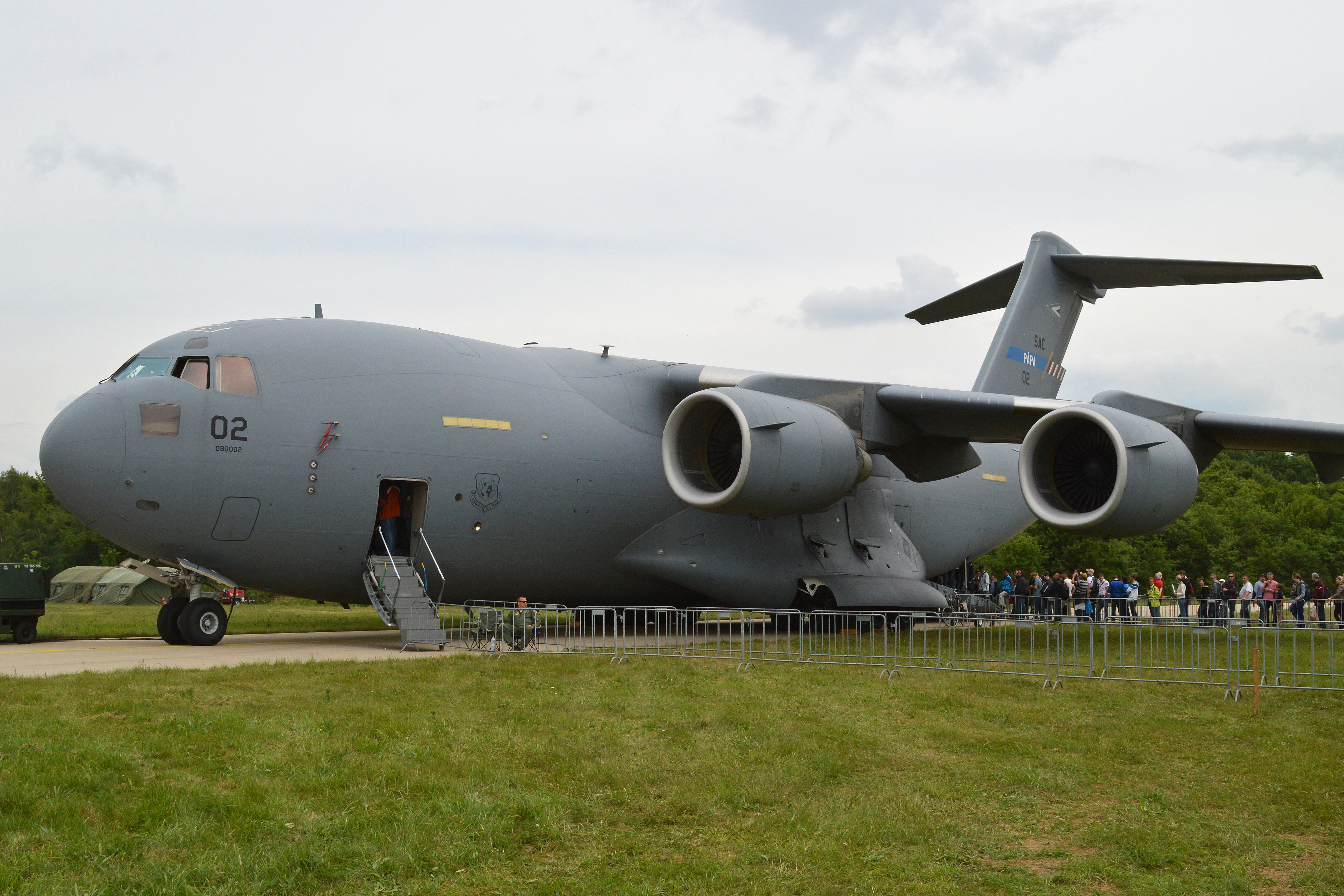 NATO's transport wing is based at PAPA air base in Hungary. The units three C-17s wear Hungarian AF markings. This example is c/n F210 and l/n SAC02. It is also allocated US military serial 08-0002. On static display at the '100th Anniversary of Dutch military aviation' airshow. Volkel Air Base, Netherlands. 14-6-2013